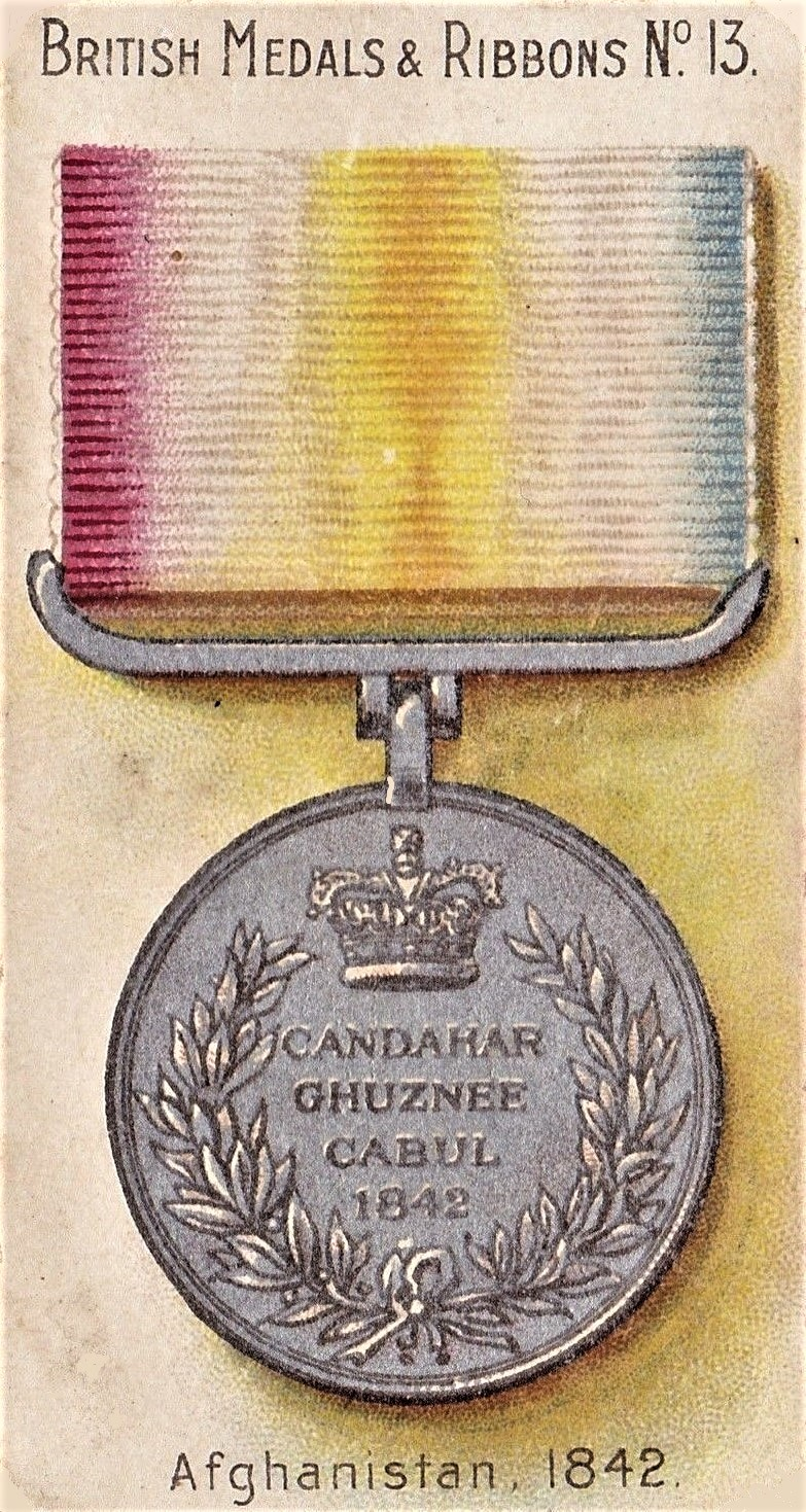 British campaign medal for the First Afghan War for service in Cabul, Ghaznee and Candahar in 1842